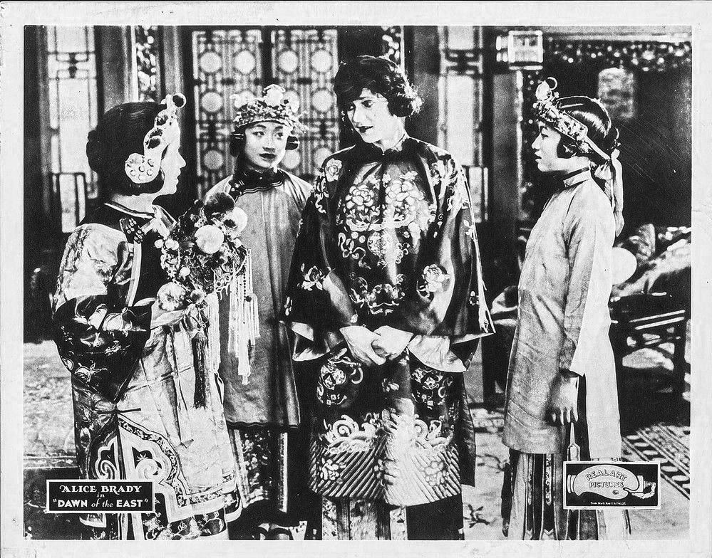 Lobby card for the American drama film Dawn of the East (1921) with Alice Brady.